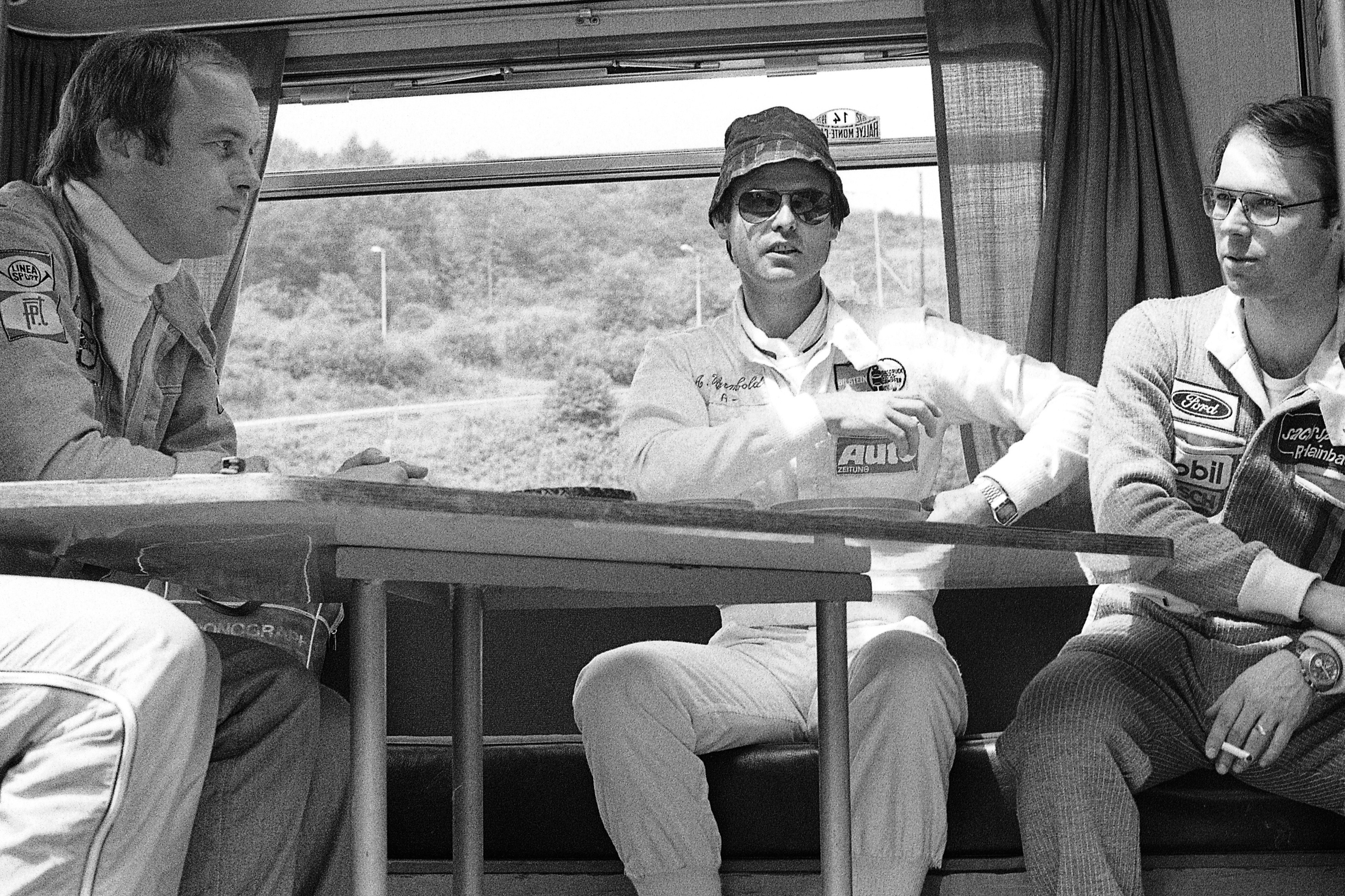 German Rally drivers (from left) Joachim Knollmann, Achim Warmbold and Reinhard Hainbach pictured during a break of their native 1978 Hunsrück-Rallye.